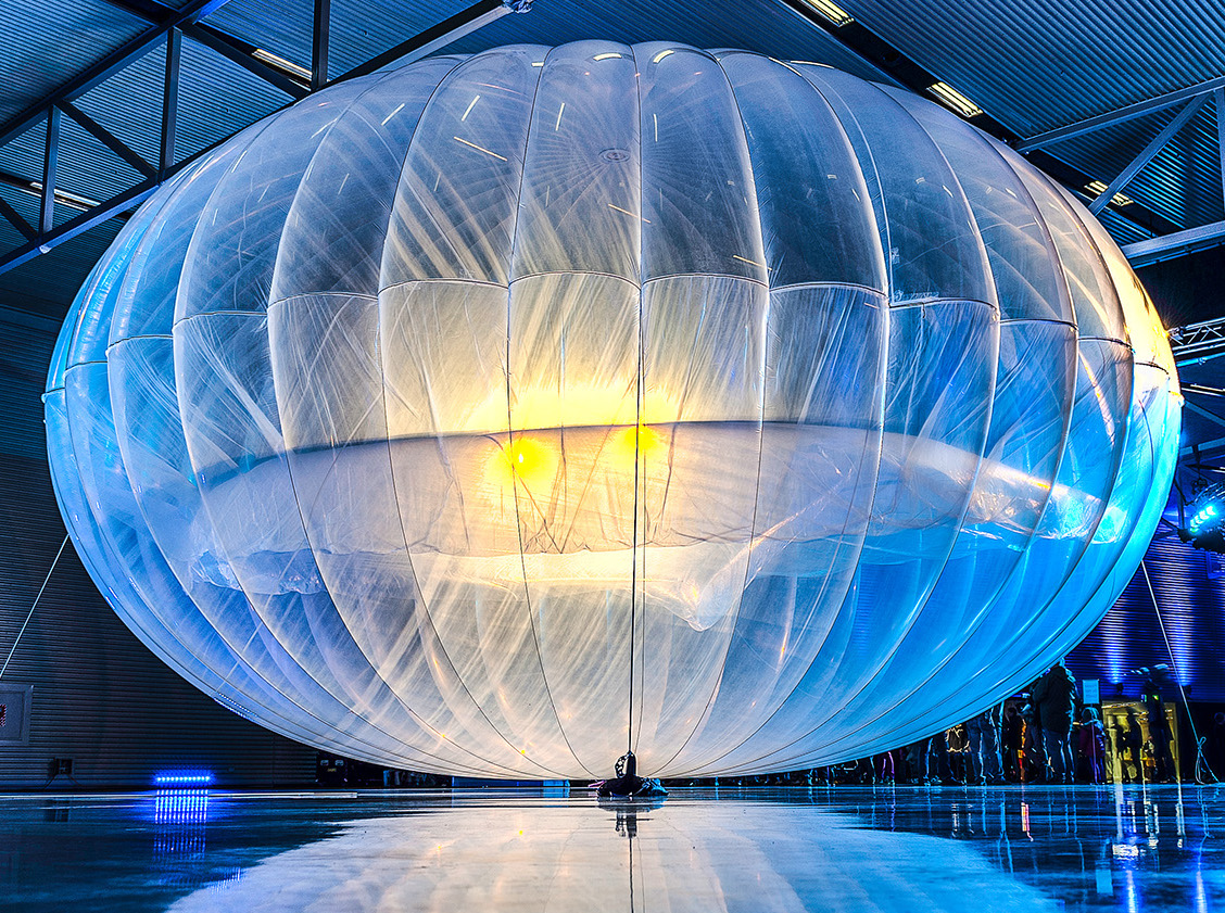 A photo from the Google Loon launch event of June 2013.